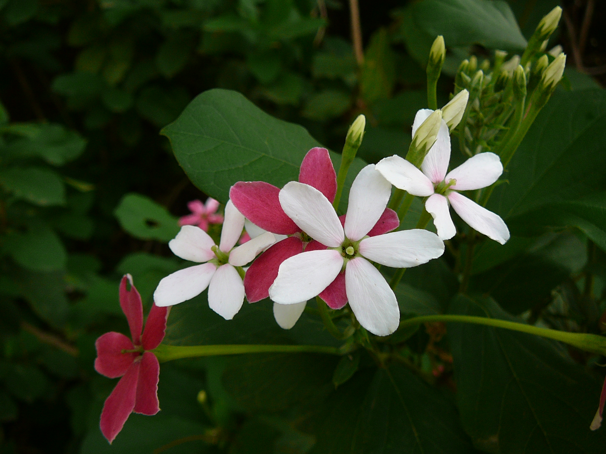 Rangoon creeper